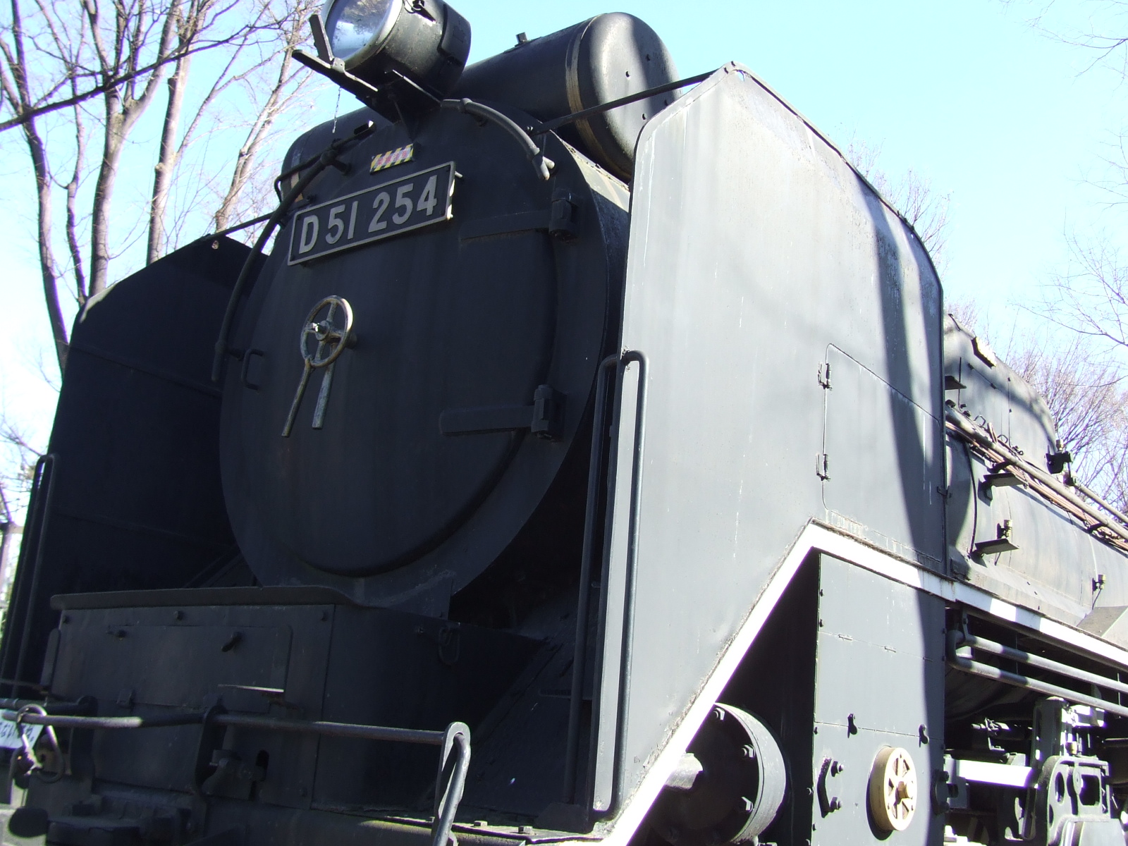 Ｄ51 254 Steam Locomotive, Tokyo, Japan